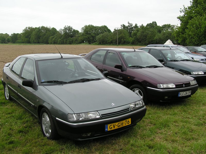 Citroen Xantia 1993